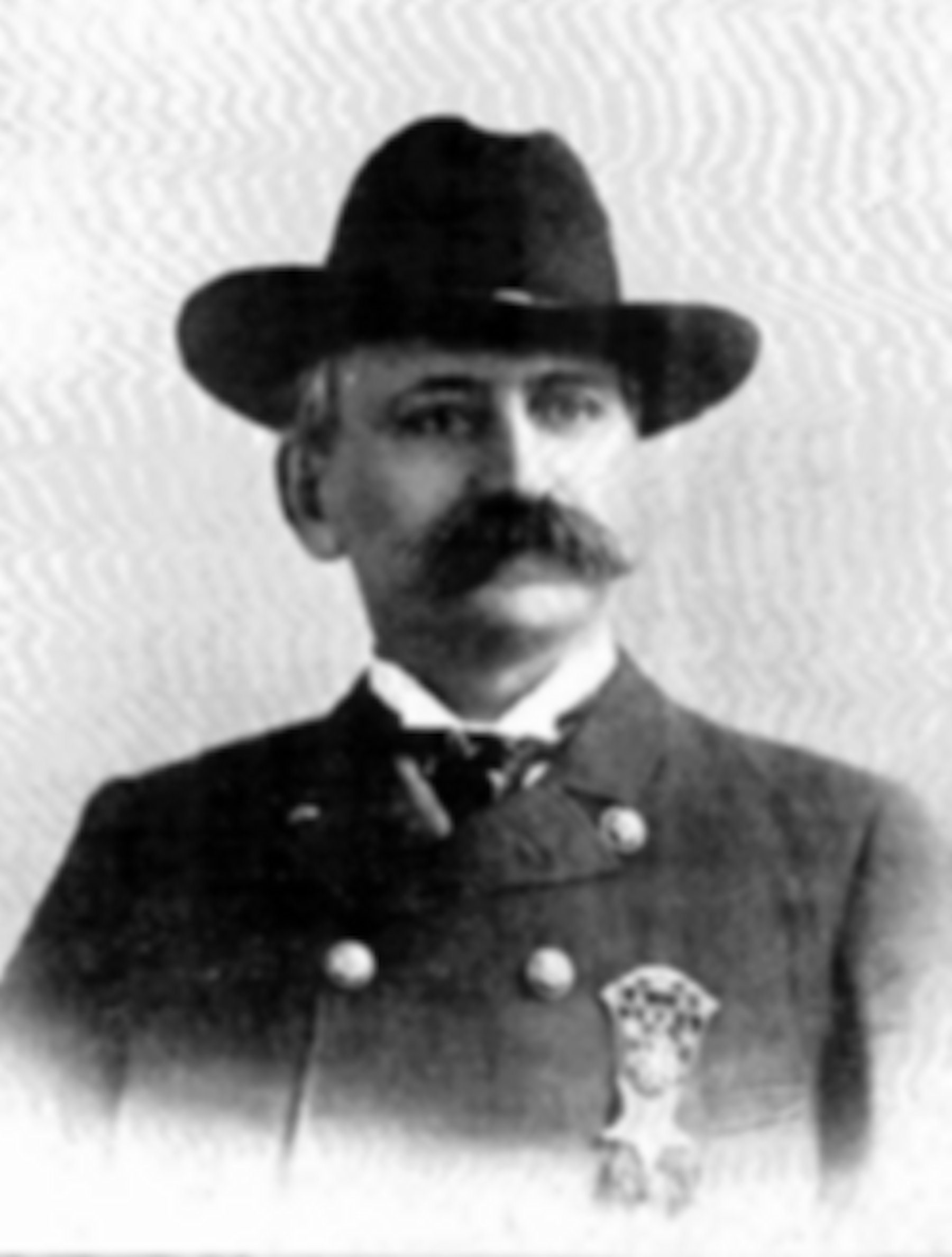 Medal of Honor winner